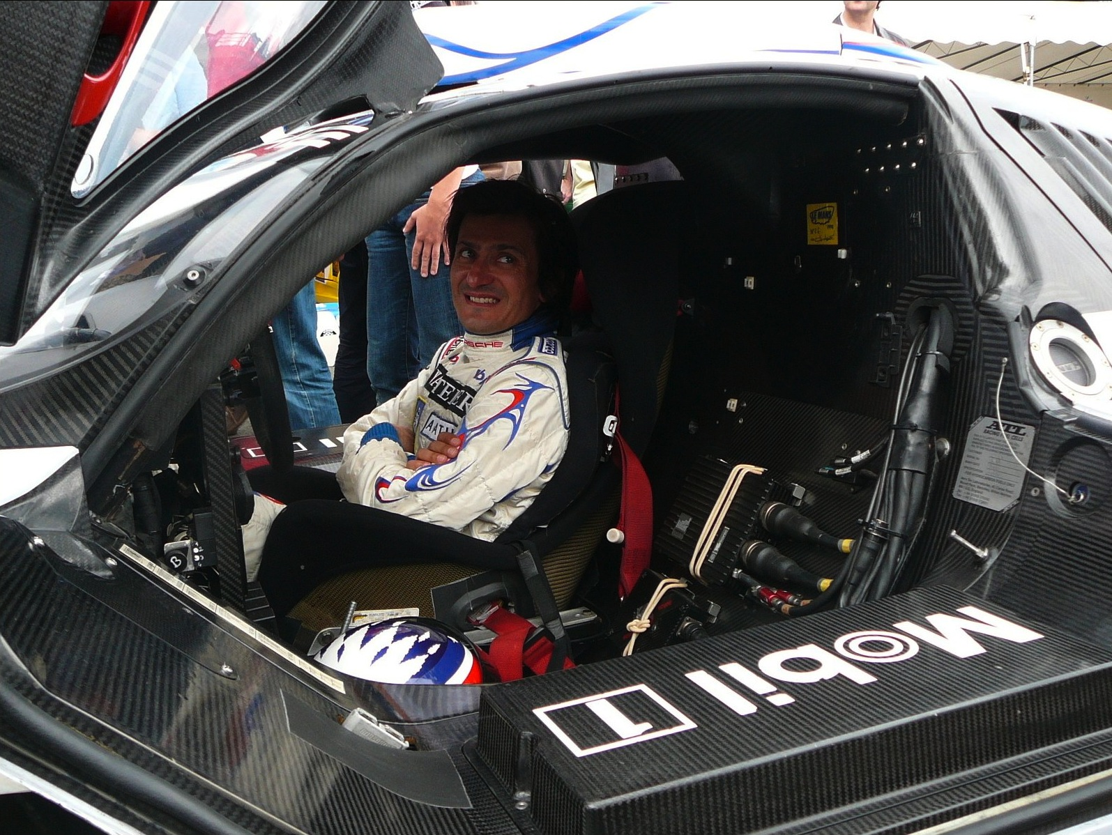 Stéphane Ortelli sitting in the 1998 Le Mans winning Porsche 911 GT1 '98. Stéphane won the race along with Allan McNish and Laurent Aïello.